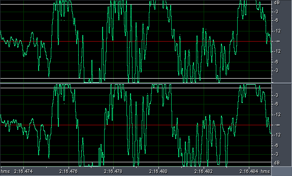 Image of a snare drum transient from "Cliffs of Dover" by Eric Johnson (Ah Via Musicom, 1990), boosted by 9dB with Adobe Audition. This image shows the amount of clipping that would result if such a process were applied to the recording in an amount required to achieve the loudness standard of current popular compact discs.